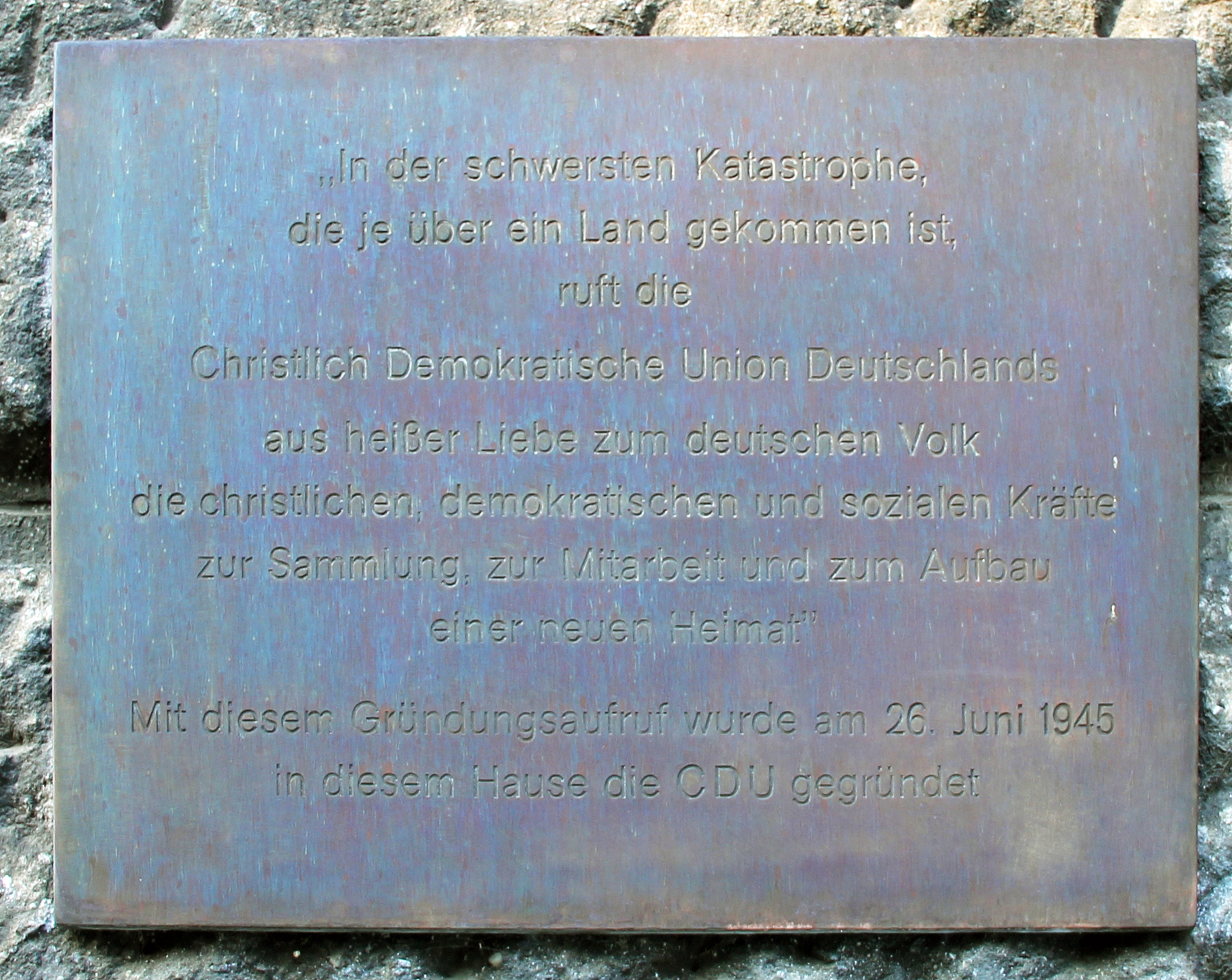 Memorial plaque, CDU Gründung, Platanenallee 11, Berlin-Westend, Germany